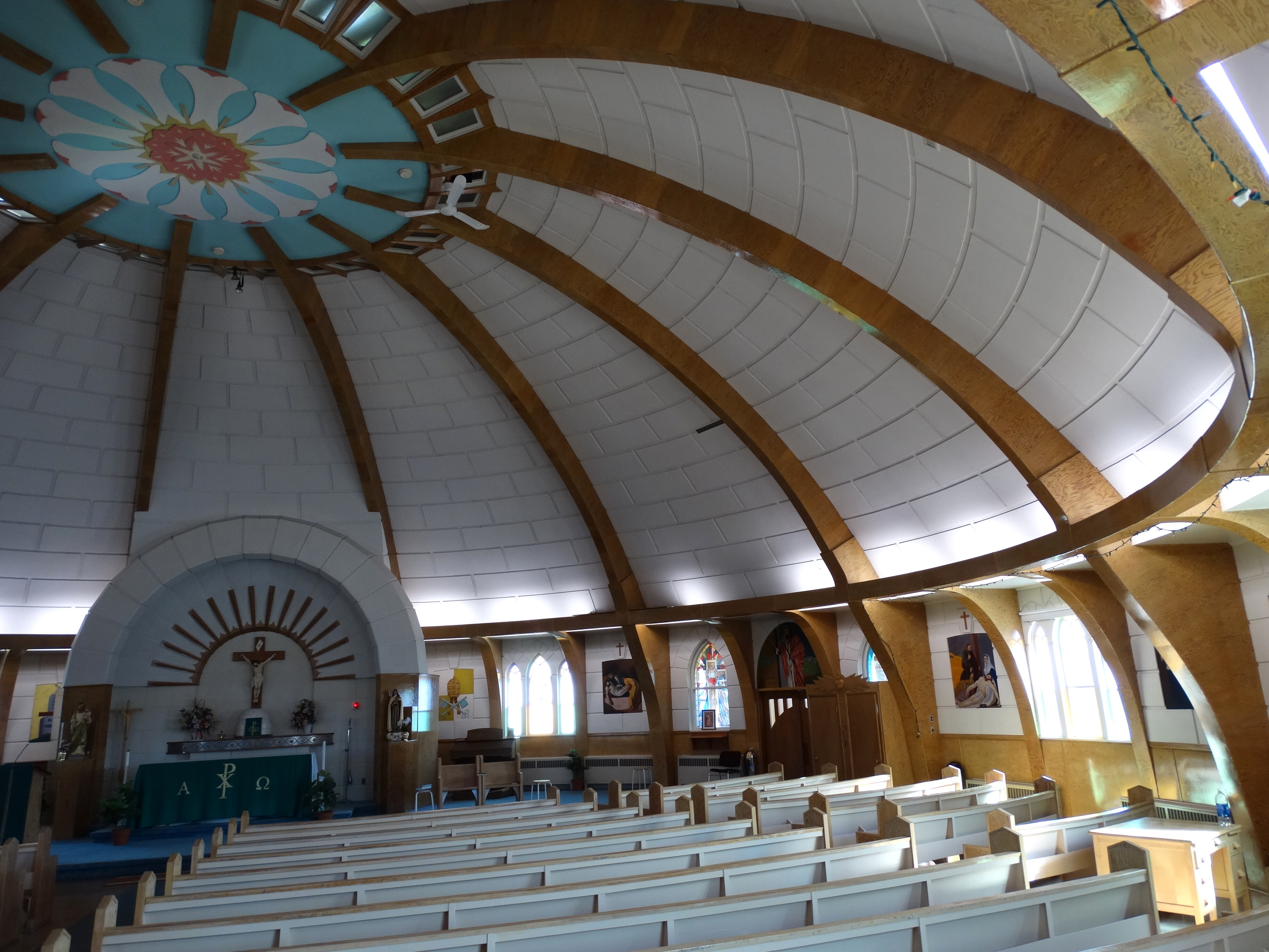 Interior of Our Lady of Victory - Igloo-Shaped Church - Inuvik - Northwest Territories - Canada - 01